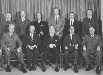 Photo by Thomas L. Hughes. Released for use by author 2004.